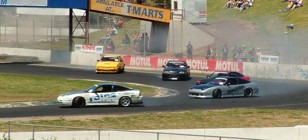 Took photo myself, 11th December 2005, Calder Park, Melbourne, Australia, photo shows Team Drift competition, I think the teams name was "Snatch Catchers"? The photo above is of a team called 'insane Drifters' from Melbourne, Australia. The team began a few years ago, and are currently battling their way up the rankings. For more information, visit